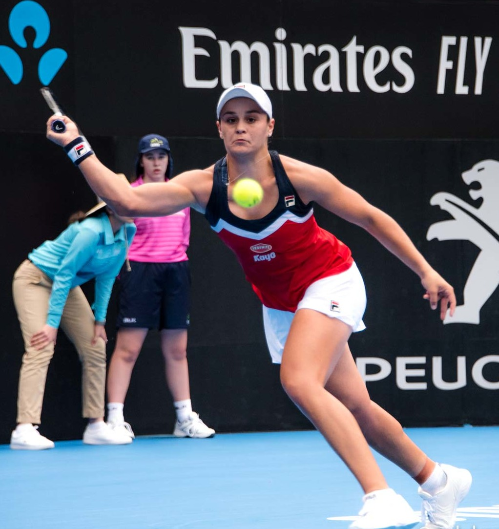 Sydney, Australia - 11 January 2019: Ashleigh Barty hitting during the Sydney International singles semifinal match against Kiki Bertens on Ken Rosewall Arena at Sydney Olympic Park. (Photo by Rob Keating/robiciatennis.com)